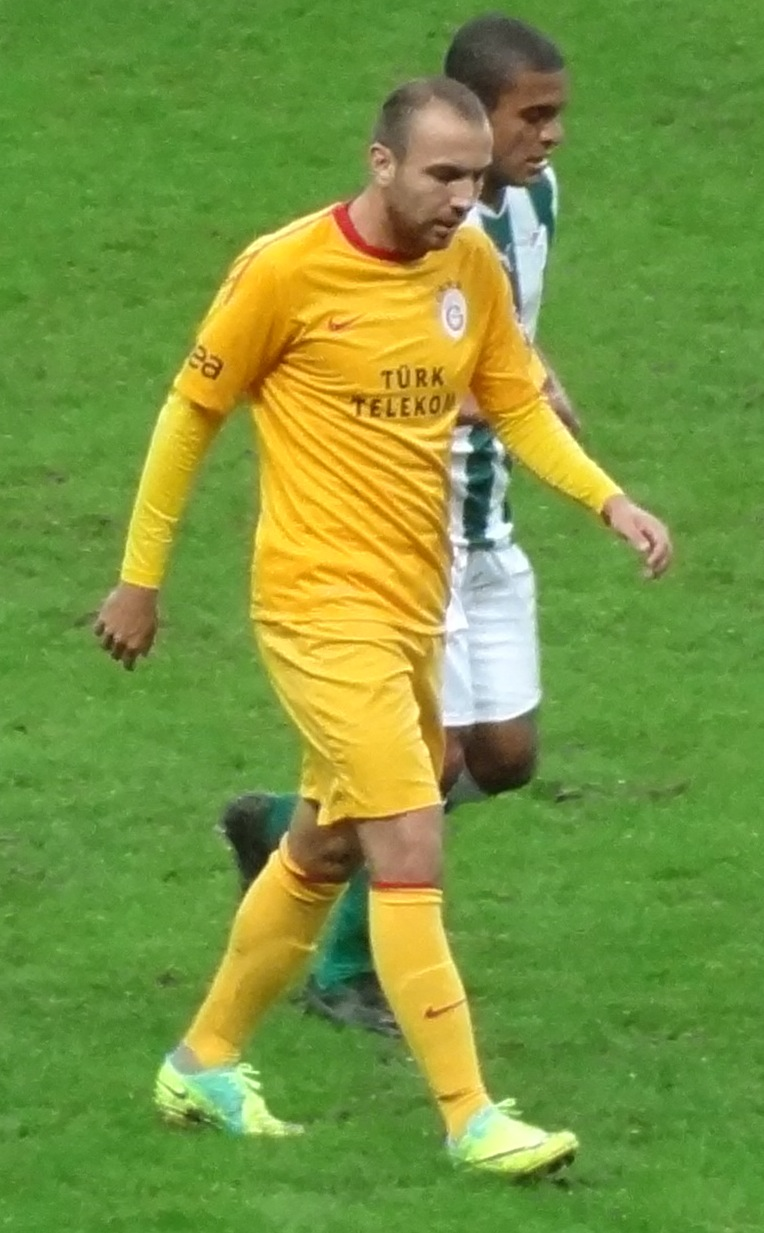 sercan eski takımına karşı